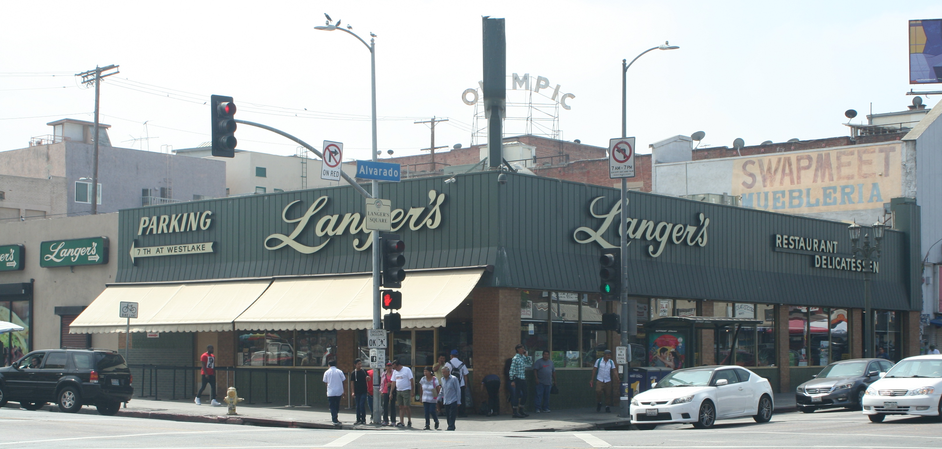 Exterior of Langer's Deli in Los Angeles, shot from Langer's Square (the intersection of Alvarado and 7th Streets).